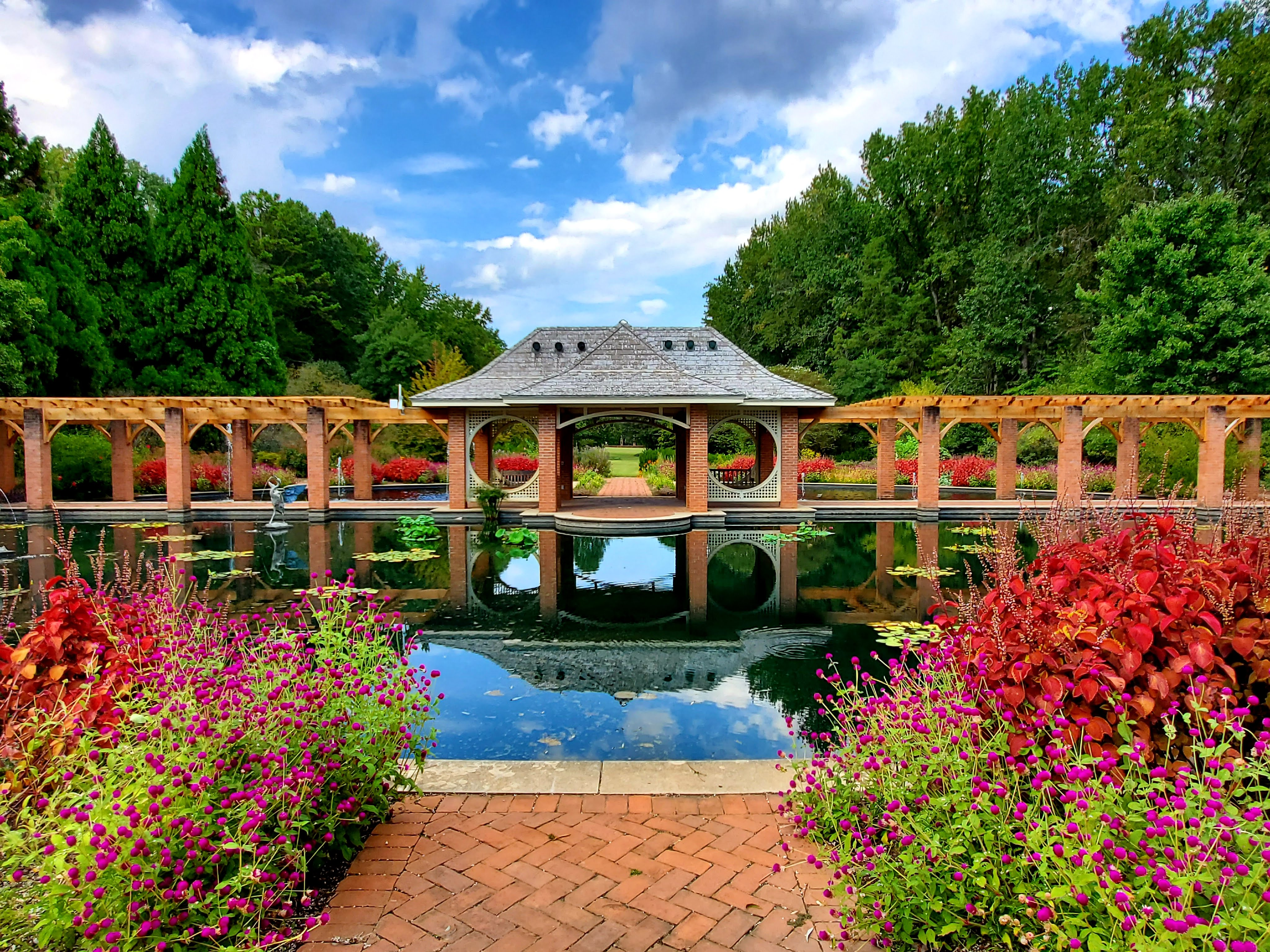 Huntsville Botanical Garden Aquatic Garden 2019